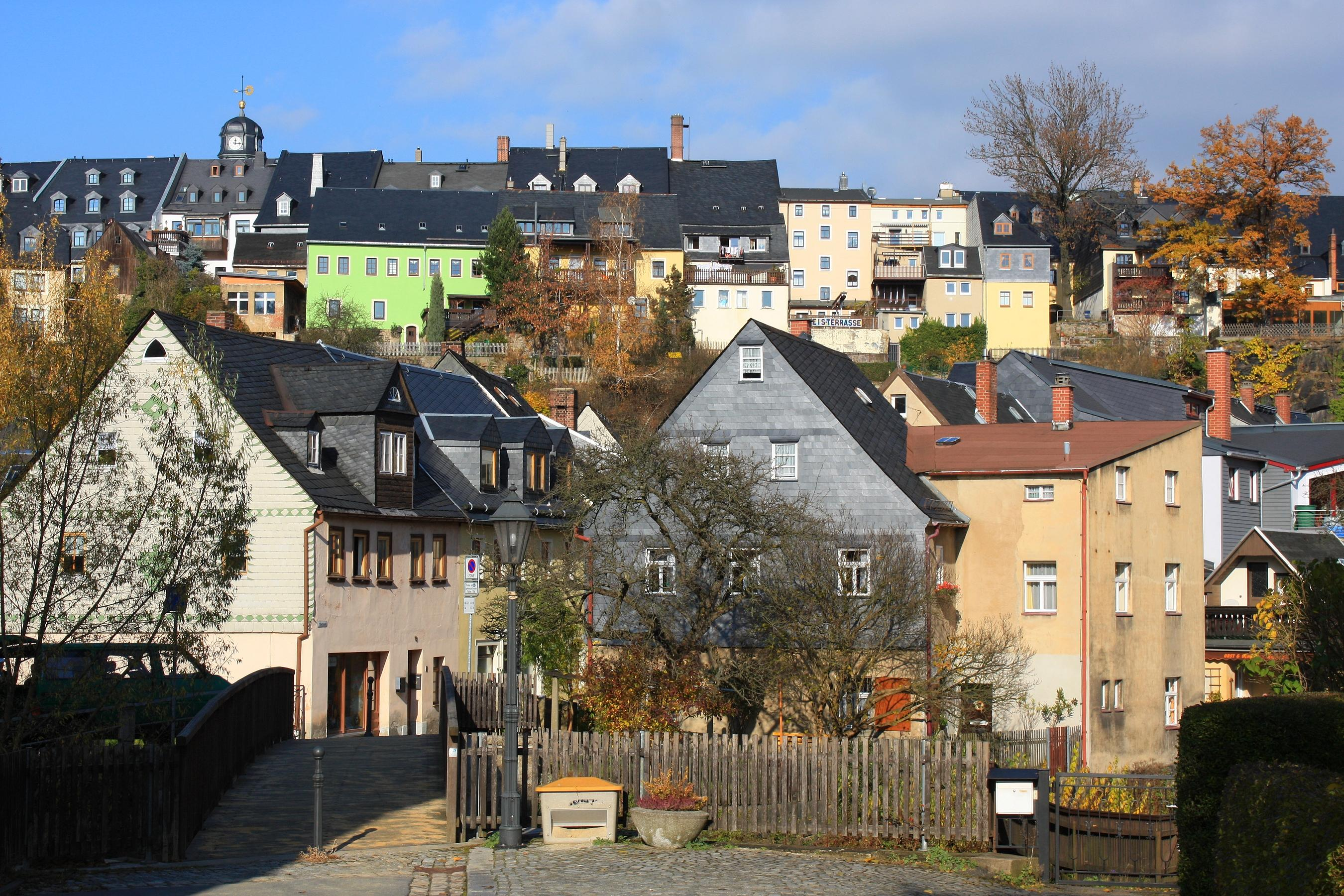 Schwarzenberg: Vorstadtbrücke